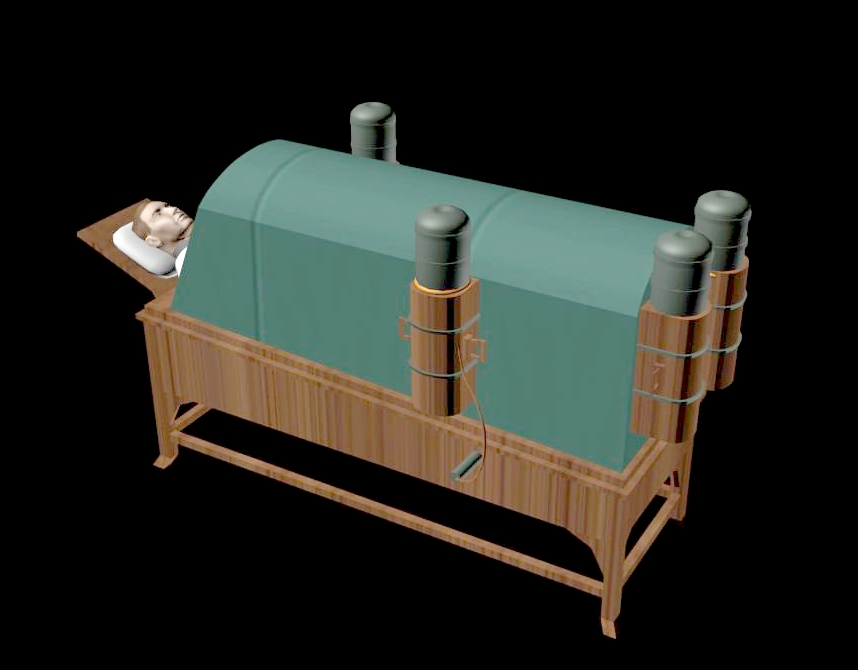 Electric Bath. 3D Concept of what the early 1900s "Electric Bath" device resembled with a user lying inside. Feel free to use this image and distribute, or show on your own page, but please link or give credit to the author (James Tingle).